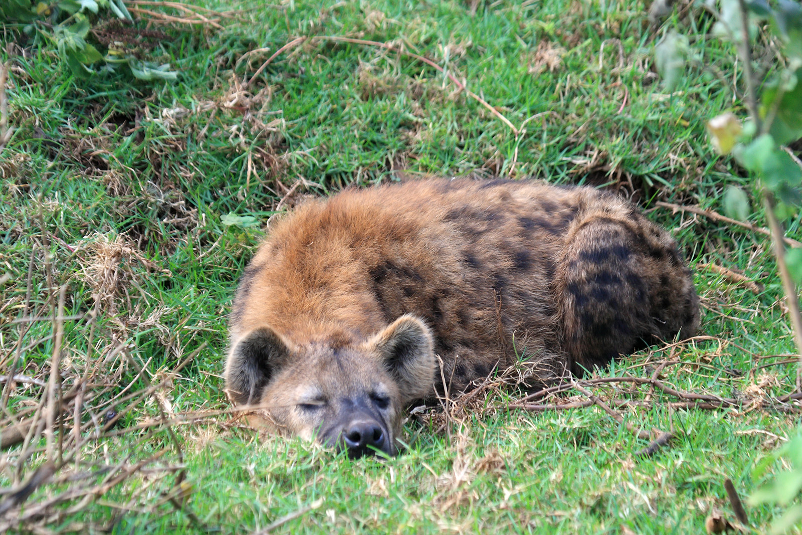 Spotted hyena in Aberdare National Park, Kenya